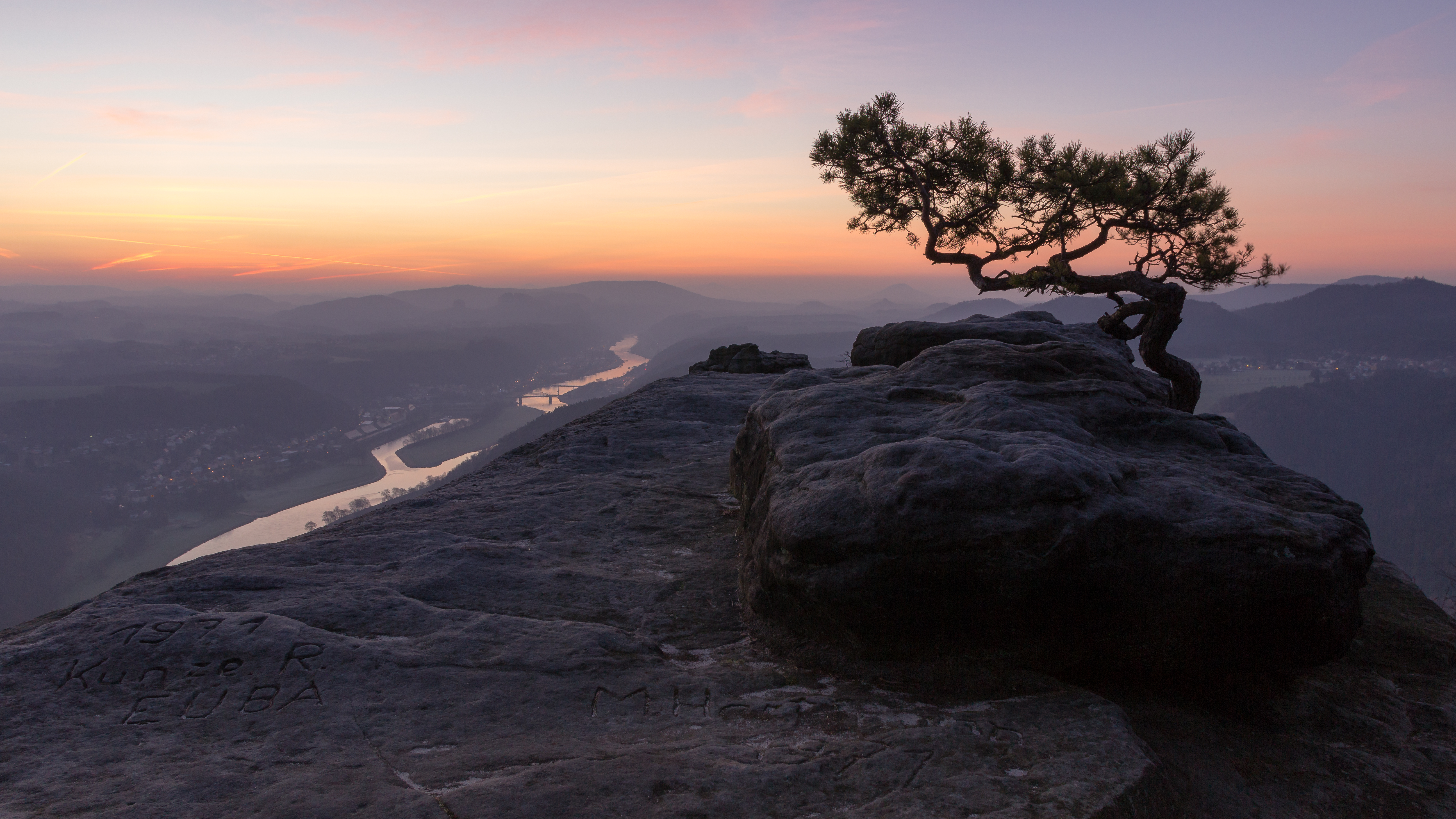 Pine tree on Lilienstein in Nationalpark Sächsische Schweiz, view in direction of Bad Schandau, Saxonia, Germany